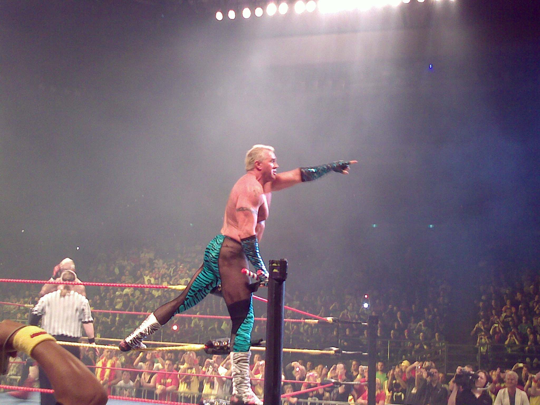 Bruti acknowledging the fans